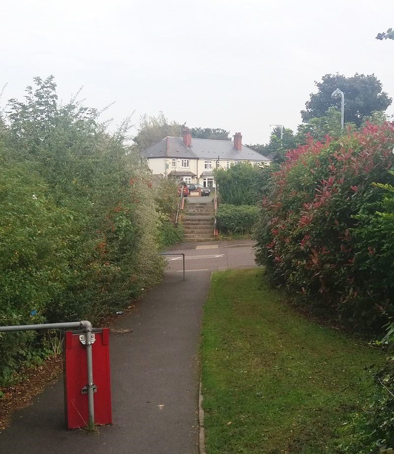 My own.